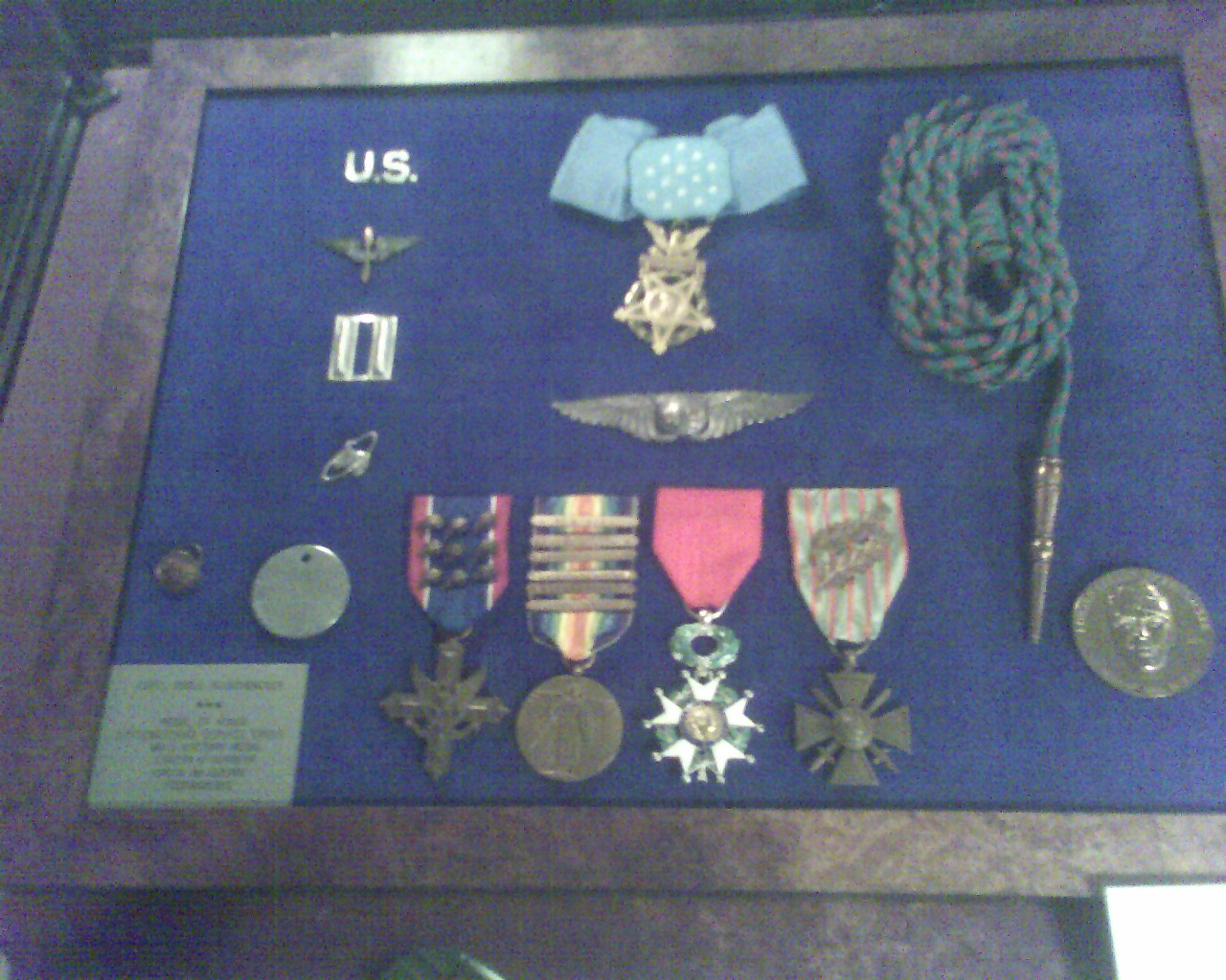 Eddie Rickenbacker's medals on display at the San Diego Aerospace Museum.